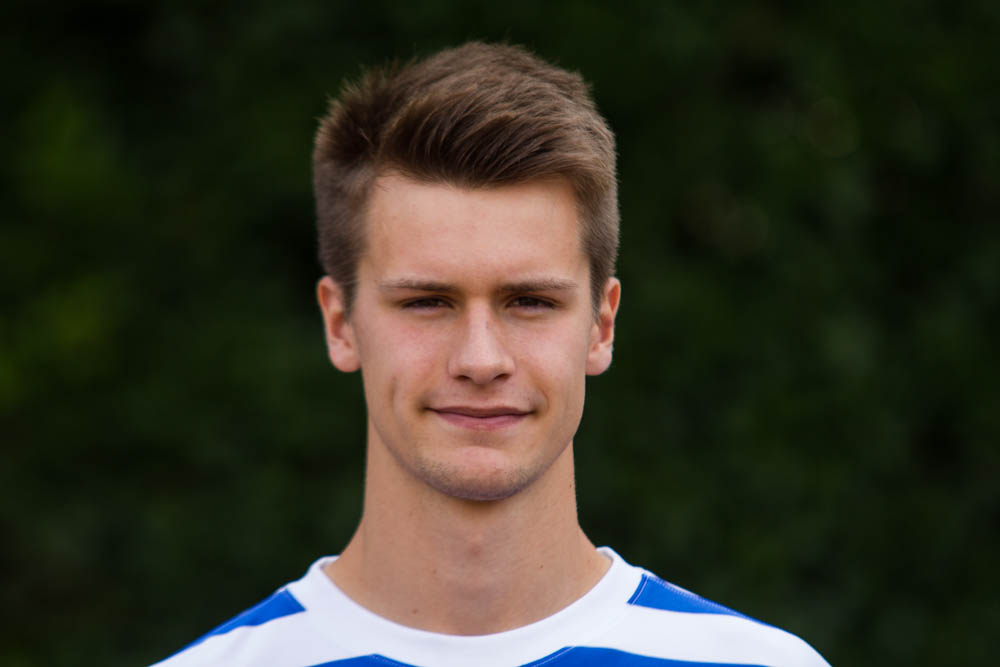 German football player Maximilian Güll, MSV Duisburg